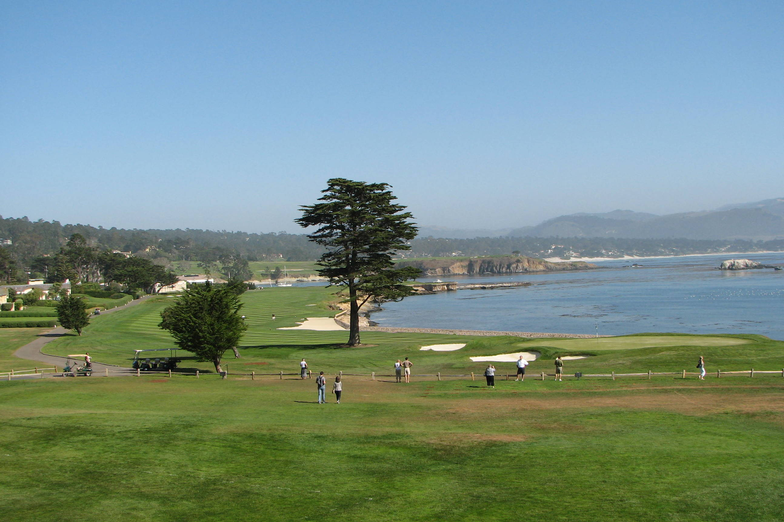 Pebble Beach Golf Links 18th hole, California, USA